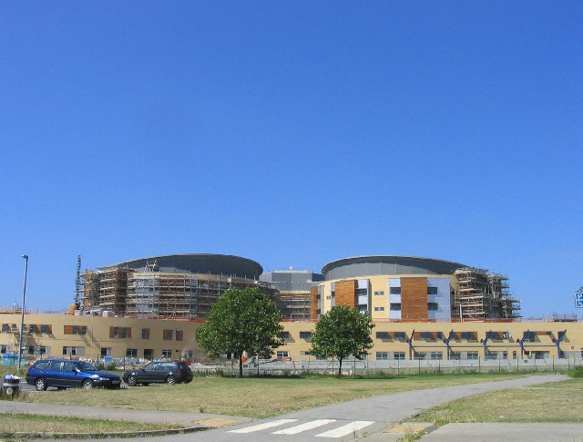 The new Oldchurch Hospital, Romford, Essex.